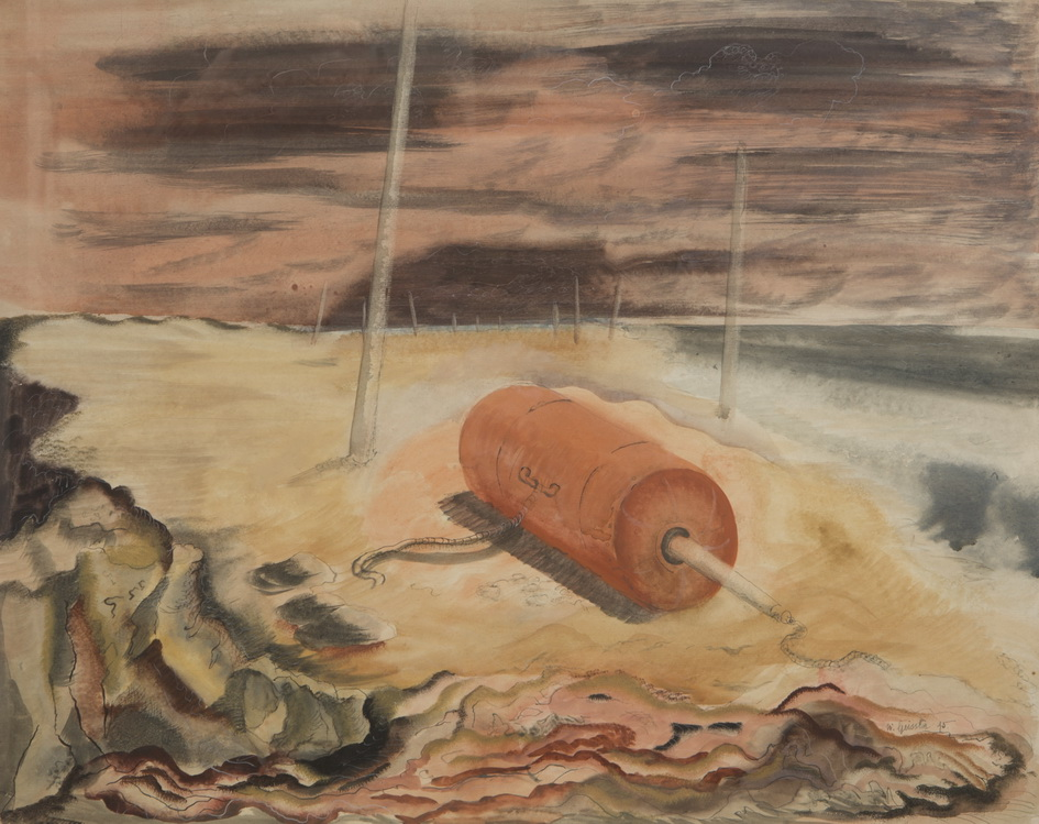 Wartime Beach, showing defences against German troop invasion with gliders: wooden poles set into concrete-filled cannisters and dug into the sand. Gouache with pen and ink, 1945.